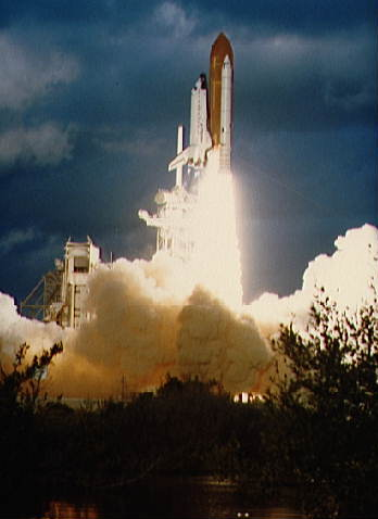 View across the water of the launch of STS 51-A shuttle Discovery. The orbiter is just clearing the launch pad. Photo was taken from across the river, with trees and shrubs forming the bottom edge of the view.